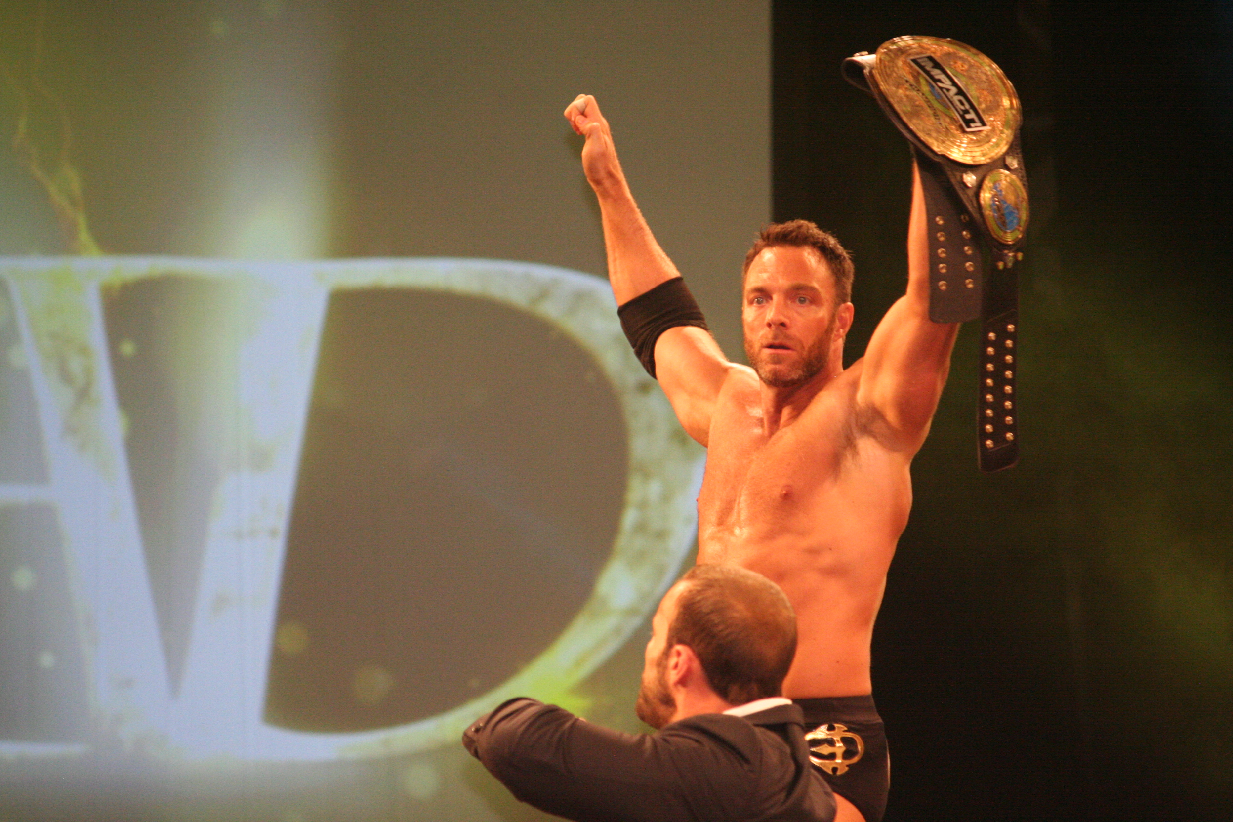 Eli Drake as the Global Champion at Impact Wrestling's Bound for Glory event in November 2017.